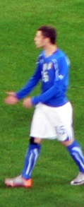 Claudio Marchisio during the game between Italy and Paraguay at FIFA World Cup 2010, 14 June 2010, Green Point Stadium, Cape Town